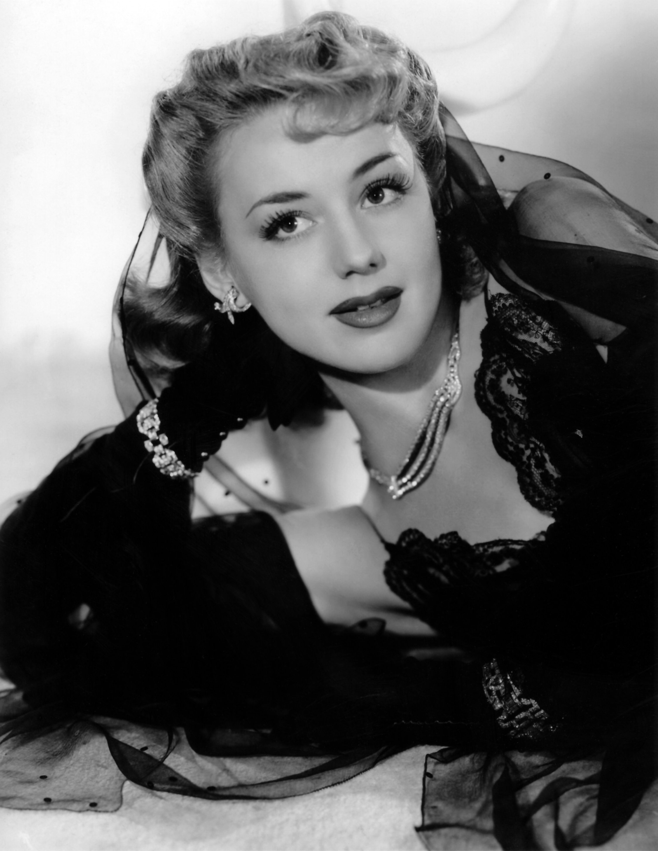 Promotional photograph of actor Anne Shirley (1940s)